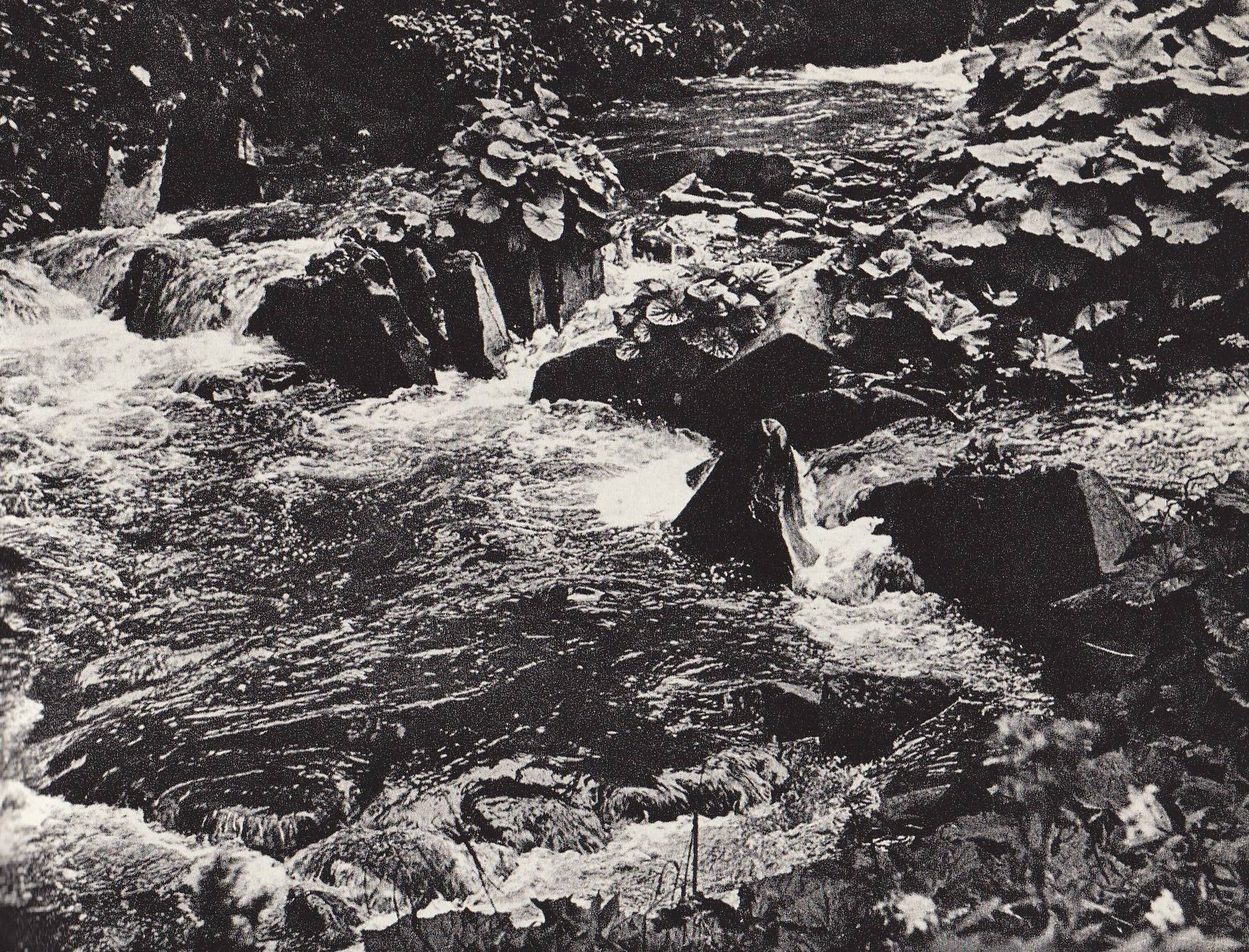 Upper part of Dwernik river, which is called ther "Nasiczniański Potok" i.e. Nasiczański stream